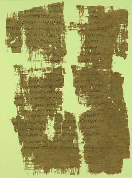 verso of Papyrus 49